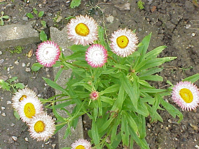 Species: Xerochrysum bracteatum Family: Asteraceae Image No. 6